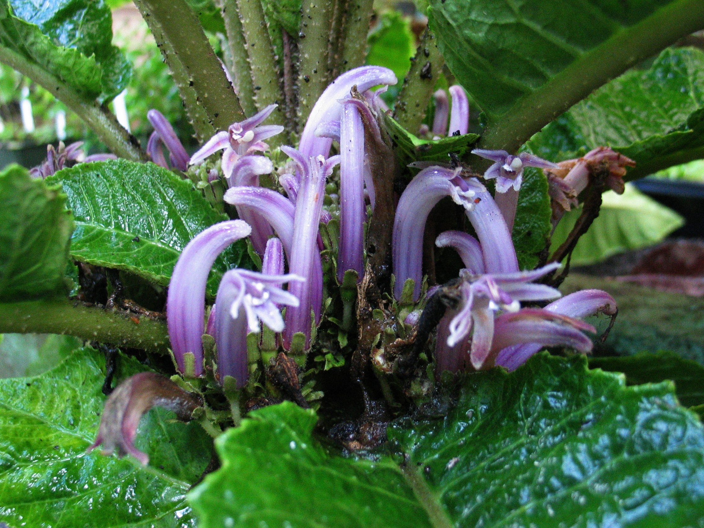 Hāhā or Punaluu cyanea Campanulaceae Endemic to the Hawaiian Islands (Oʻahu only) Endangered Oʻahu (Cultivated)